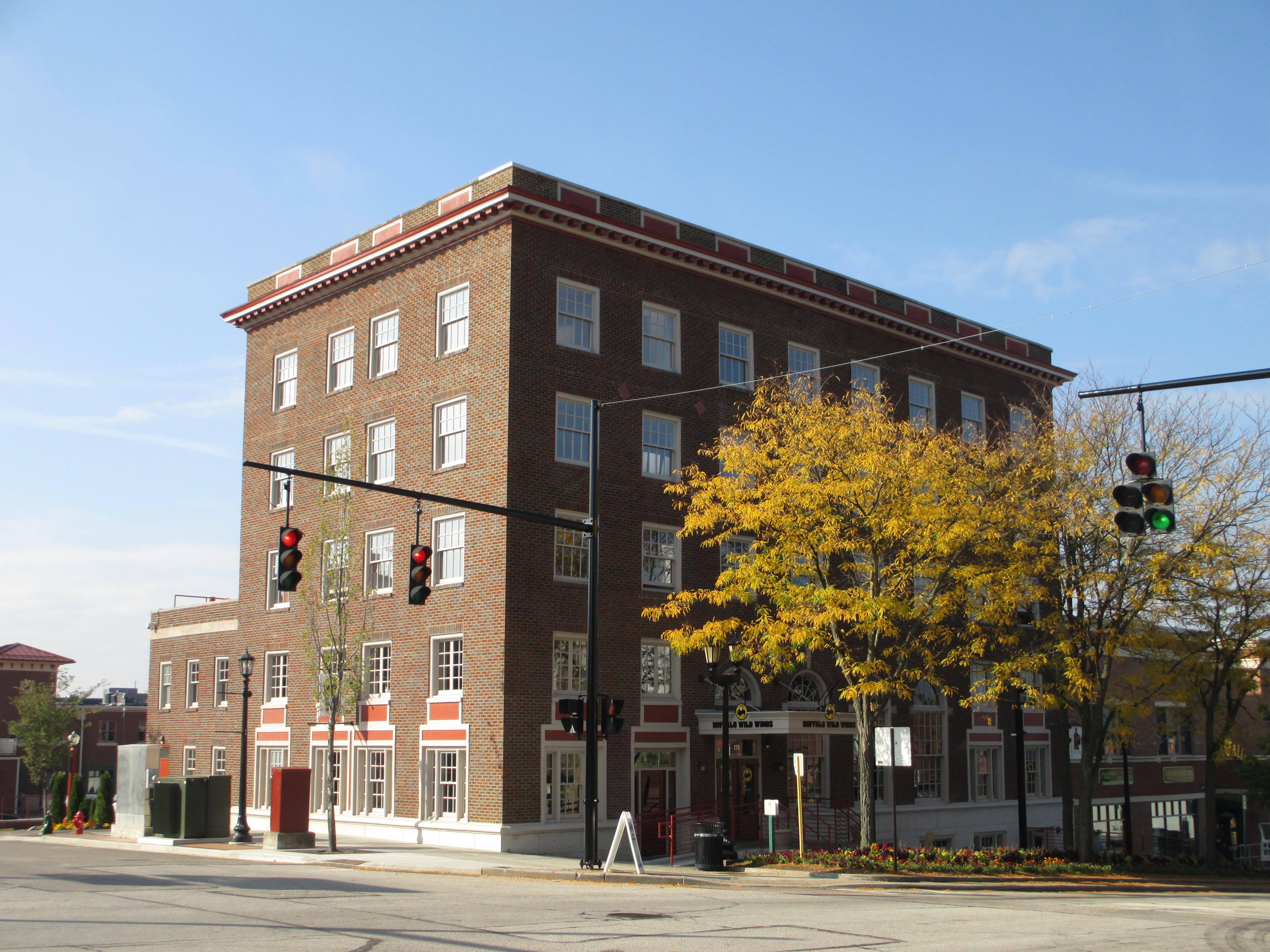 North and east facades of Acorn Corner, historically the Franklin Hotel, in Kent, Ohio